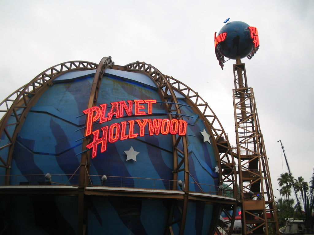 Planet Hollywood, Downtown Disney, Orlando, May 2005